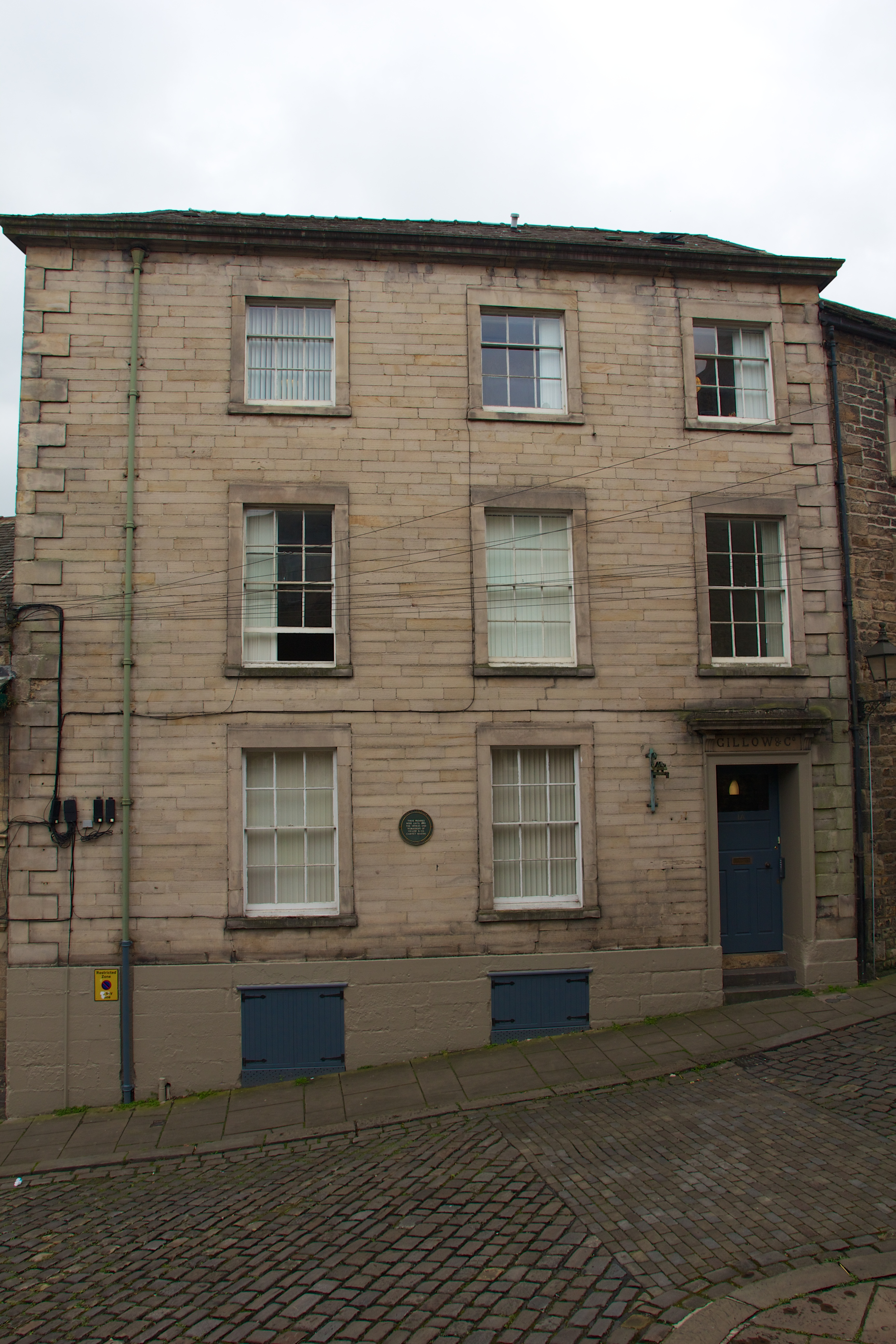 "These premises were until 1882 the offices and workshops of Gillow & Co., cabinet makers.". 1A Castle Hill. Adjacent to the Judges' Lodgings, Lancaster.